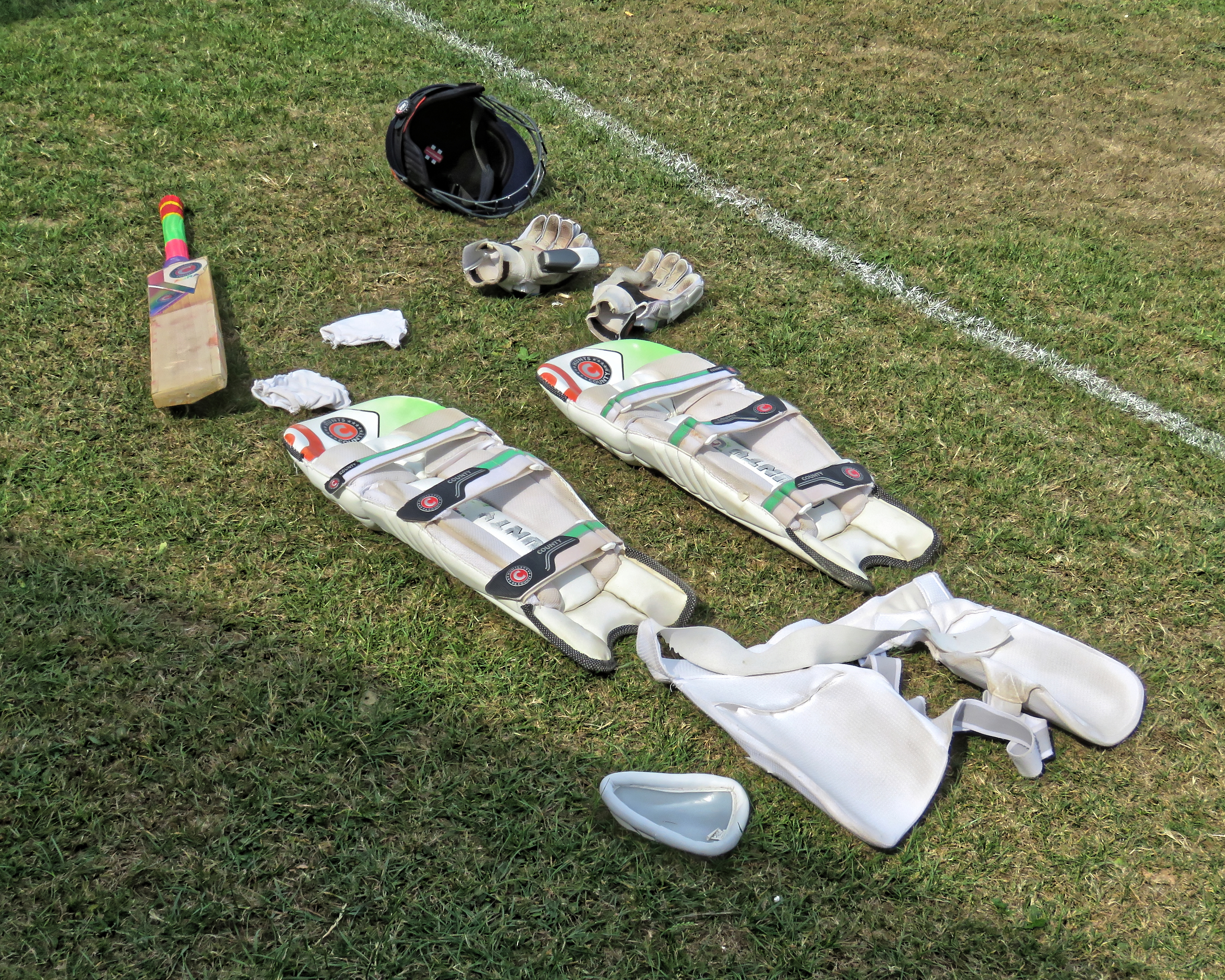 Batting equipment during a public Sussex Cricket League match between Southwater Cricket Club 2nd XI, which represents the parish of Southwater, and Chichester Priory Park Cricket Club 3rd XI of Chichester, at Southwater, West Sussex, England.Camera: Canon PowerShot SX60 HSSoftware: File lens-corrected, optimized, perhaps cropped, with DxO PhotoLab, and likely further optimized with Adobe Photoshop CS2.